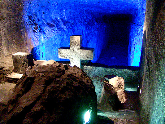 One of the Station of the Viacruxis in the gallery going in the Salt Cathedral (Zipaquirá, Colombia)